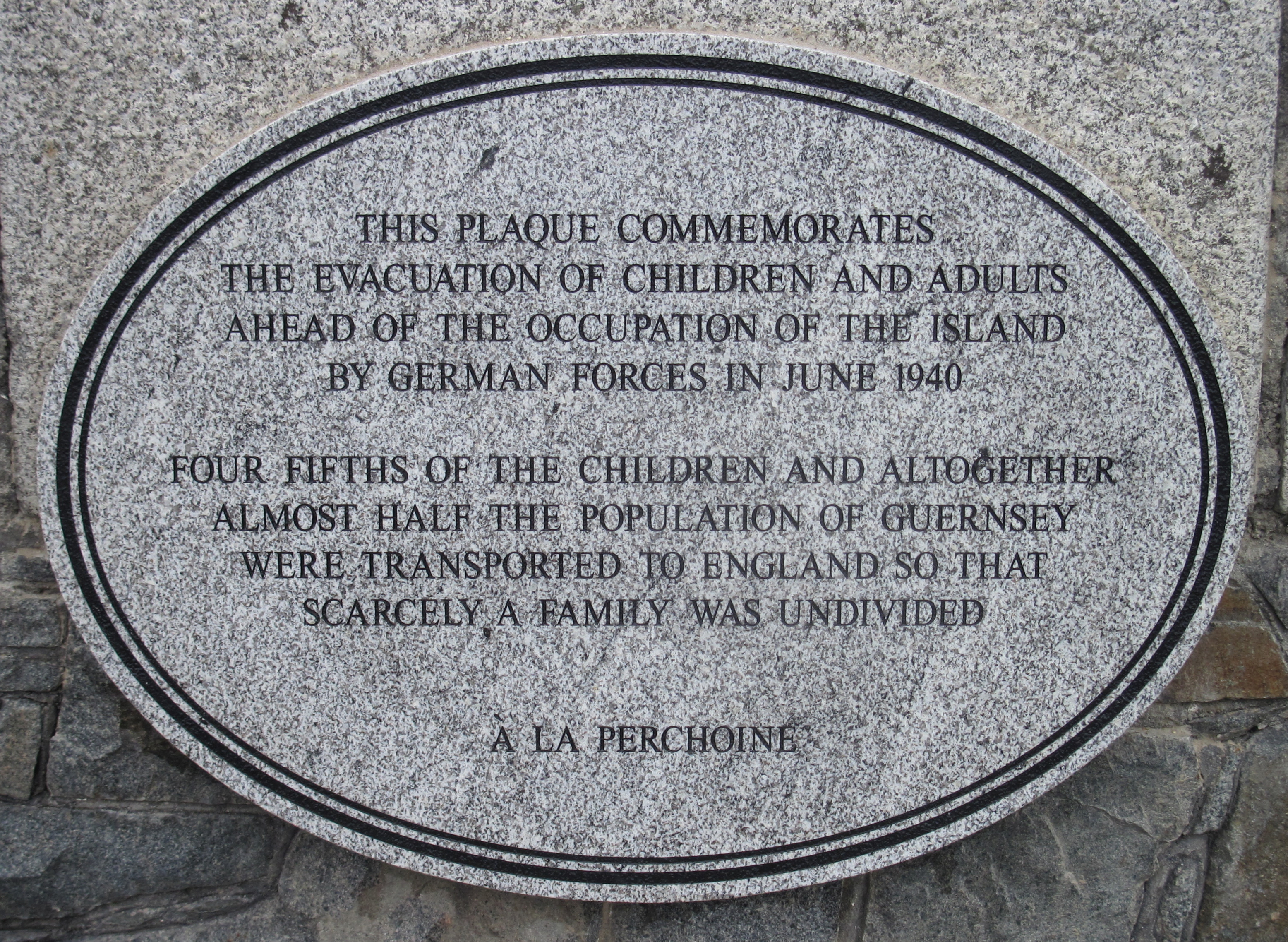 Guernsey, 2 July 2010: plaque